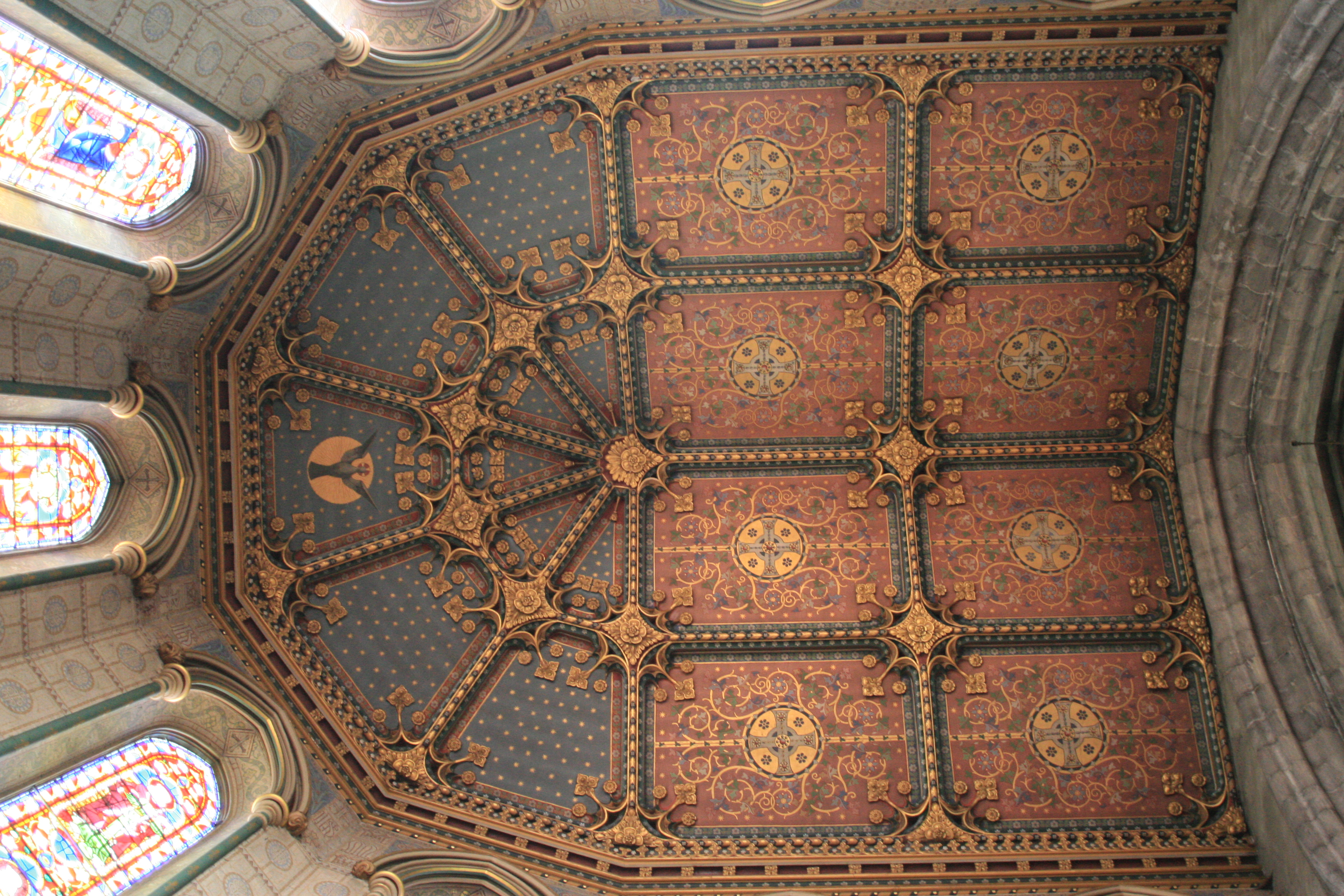 Kilkenny, Co. Kilkenny, Ireland Vault of the apse of St. Mary's Cathedral in Kilkenny.